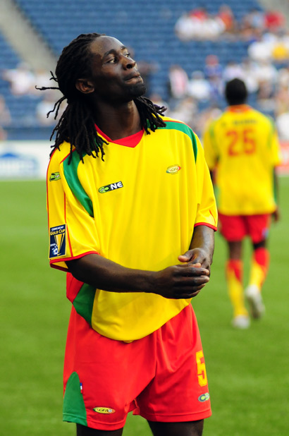 Photo of soccer player, Jason James. Wilson Wong photo.